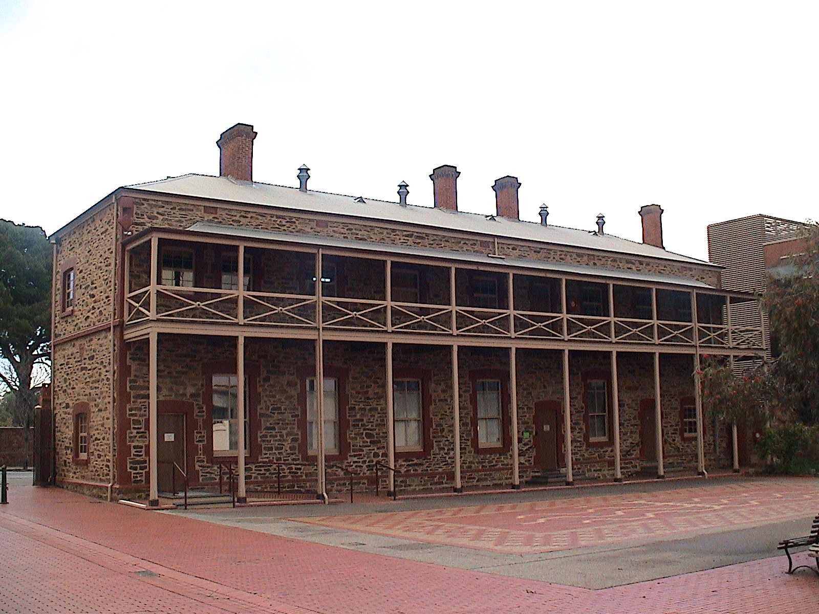 One of several historic stone buildings around a courtyard off Kintore Avenue, Adelaide, which now house the Migration Museum. This was part of the lying-in department associated with Destitute Asylum: kitchen and dining room to the left; matron's quarters to the right. Dormitories were upstairs